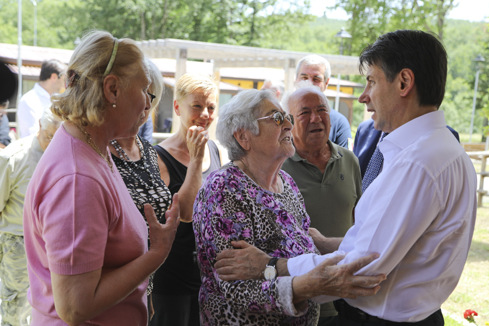 Giuseppe Conte in Central Italy